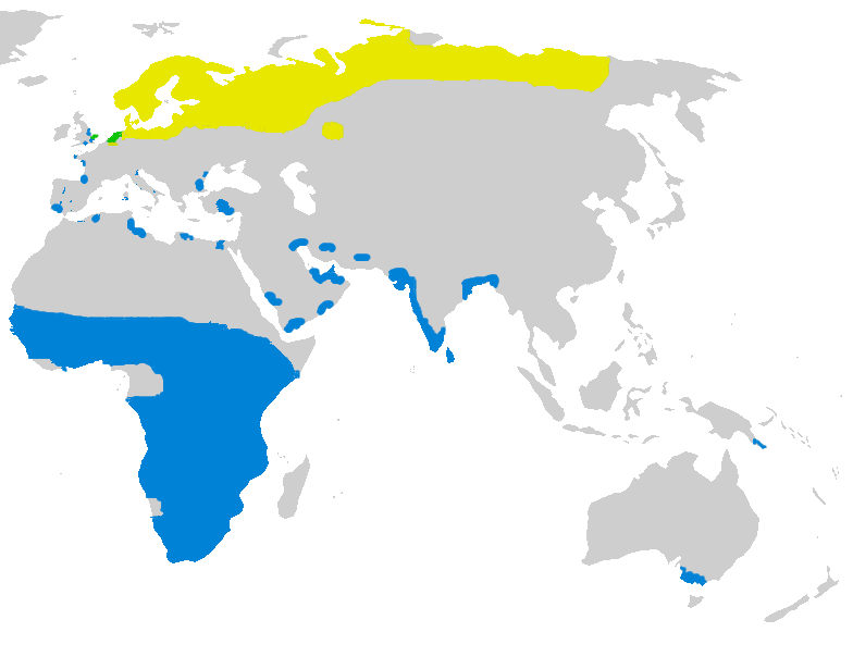 Description (English) Range of Ruff Philomachus pugnax Source Self-made Author Jimfbleak (talk) Date 19 April 2009 Base map BlankMap-World-noborders.png Mapping based on Arlott, Norman (2009). Birds of the Palearctic: Non-passerines. London: Collins. ISBN 9780007155651 p.208 Hayman, Peter; Marchant, John; Prater, Tony (1986). Shorebirds: an identification guide to the waders of the world. Boston: Houghton Mifflin. p. 208. ISBN 0395602378. Snow, David; Perrins, Christopher M (editors) (1998). The Birds of the Western Palearctic concise edition (2 volumes). Oxford: Oxford University Press. ISBN 019854099X. p.630